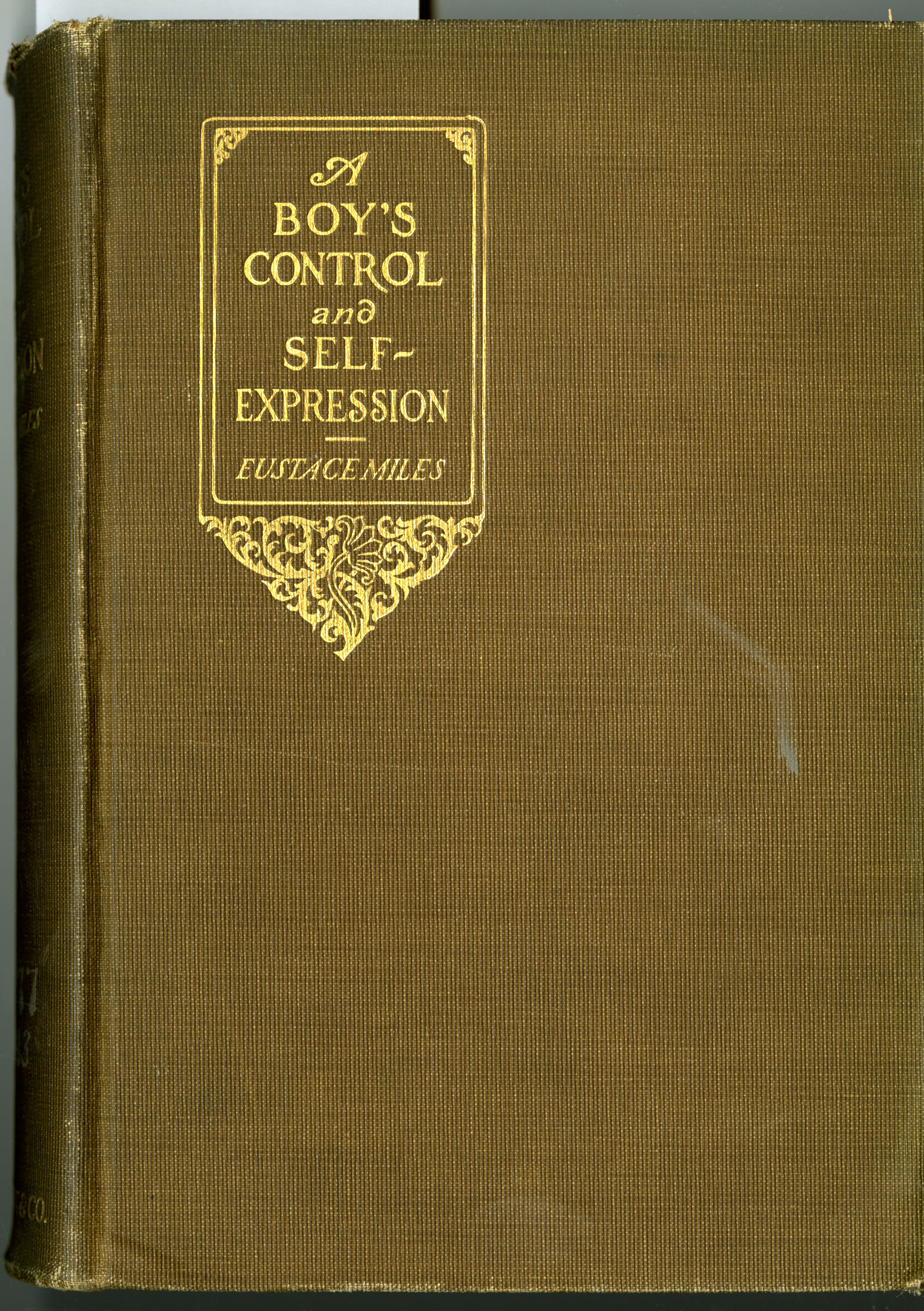 Cover of A Boy's Control and Self Expression by Eustace Miles, published in 1904.